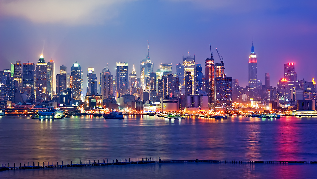 Manhattan Skyline Colors